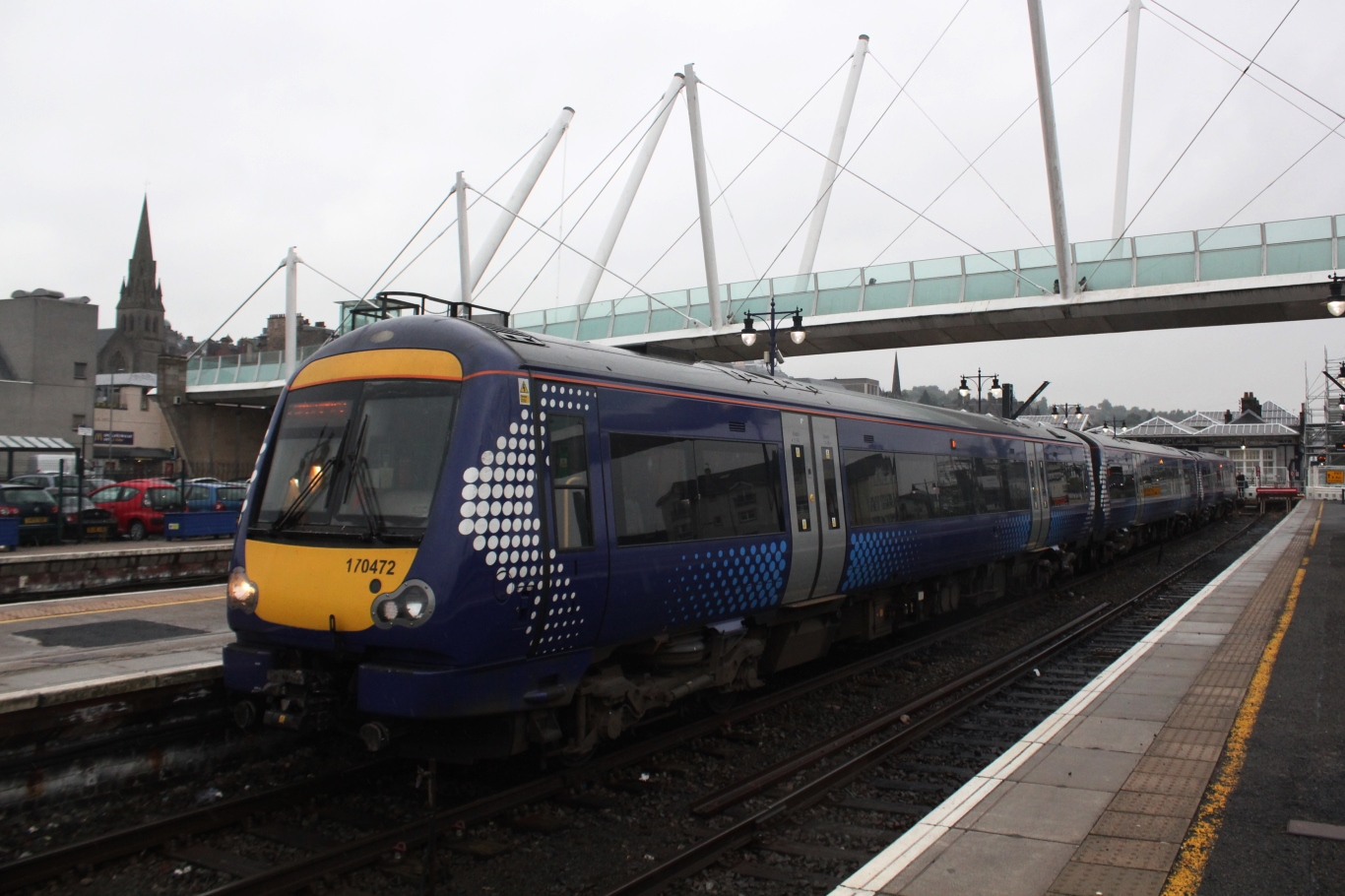 Abellio ScotRail unit 170472 at Sterling ready to start a local service to Glasgow Queen Street.